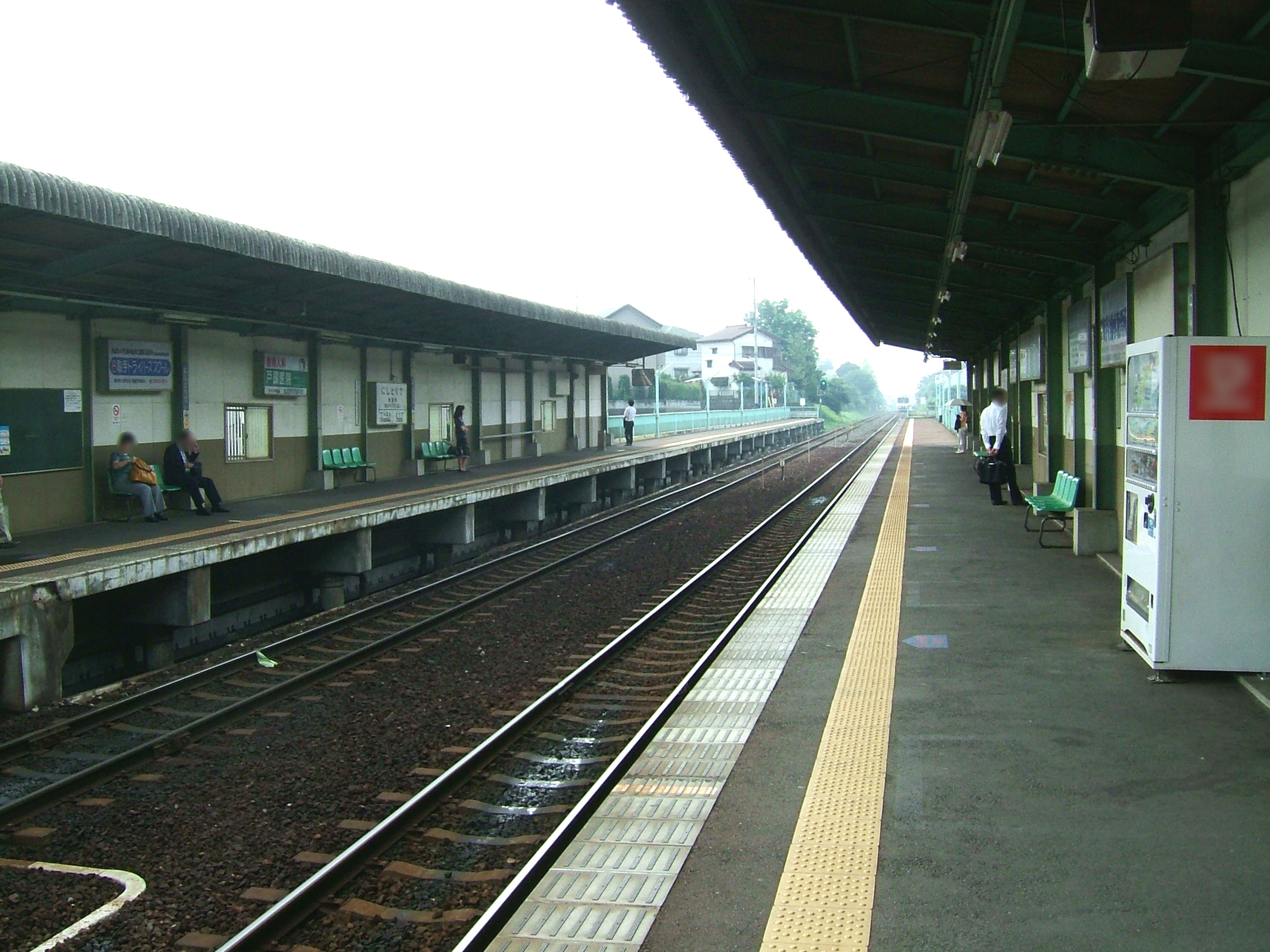 The platforms at Nishi-Toride Station on the Kanto Railway Jōsō Line